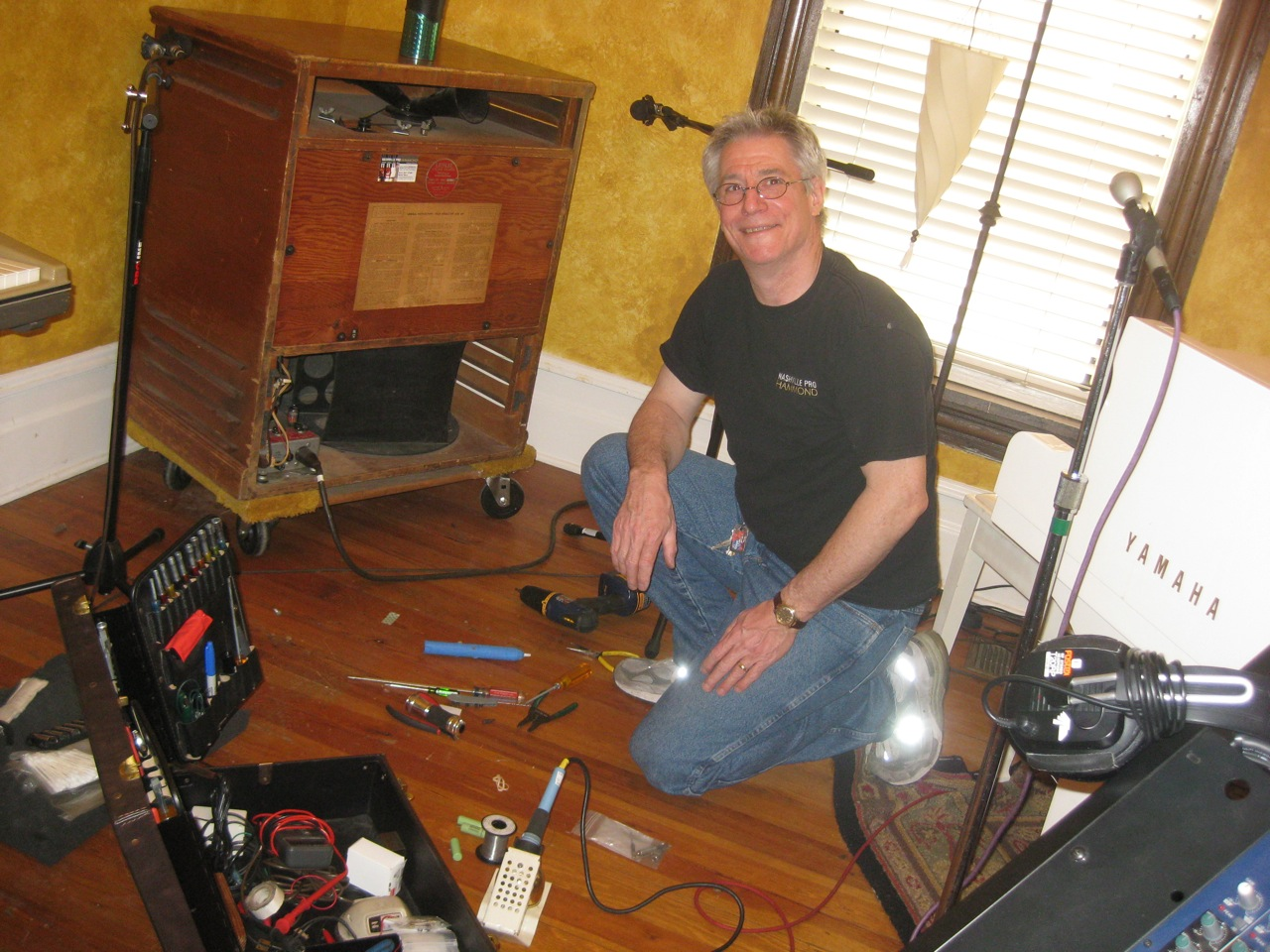 Maintaining the Leslie cabinet.